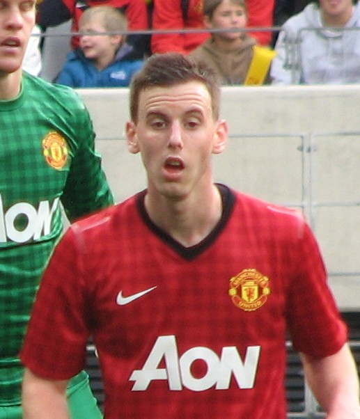 Manchester United's Nick Powell, Ben Amos and Marnick Vermijl prepare to defend a corner in a pre-season friendly match against Ajax Cape Town on 21 July 2012